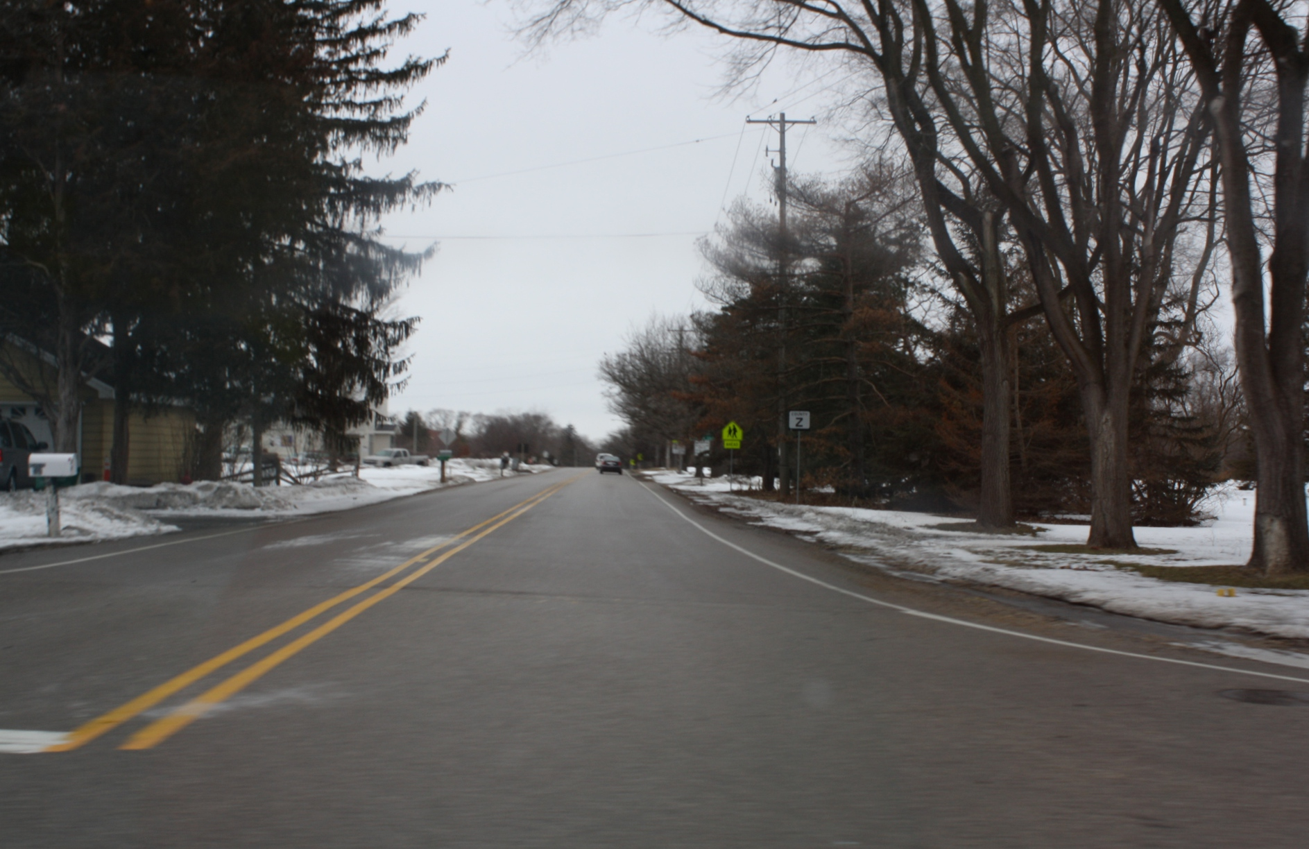 Looking west at downtown Dousman, Wisconsin on County Z.